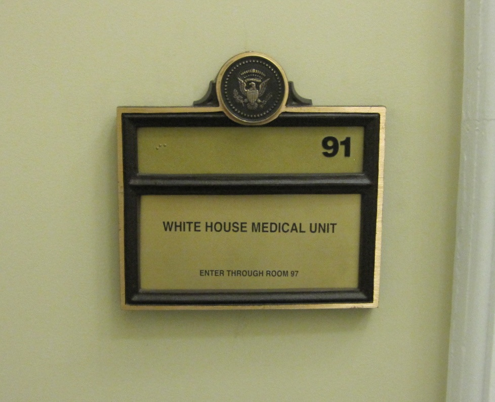 No description provided on flickr. A door sign to room 91.